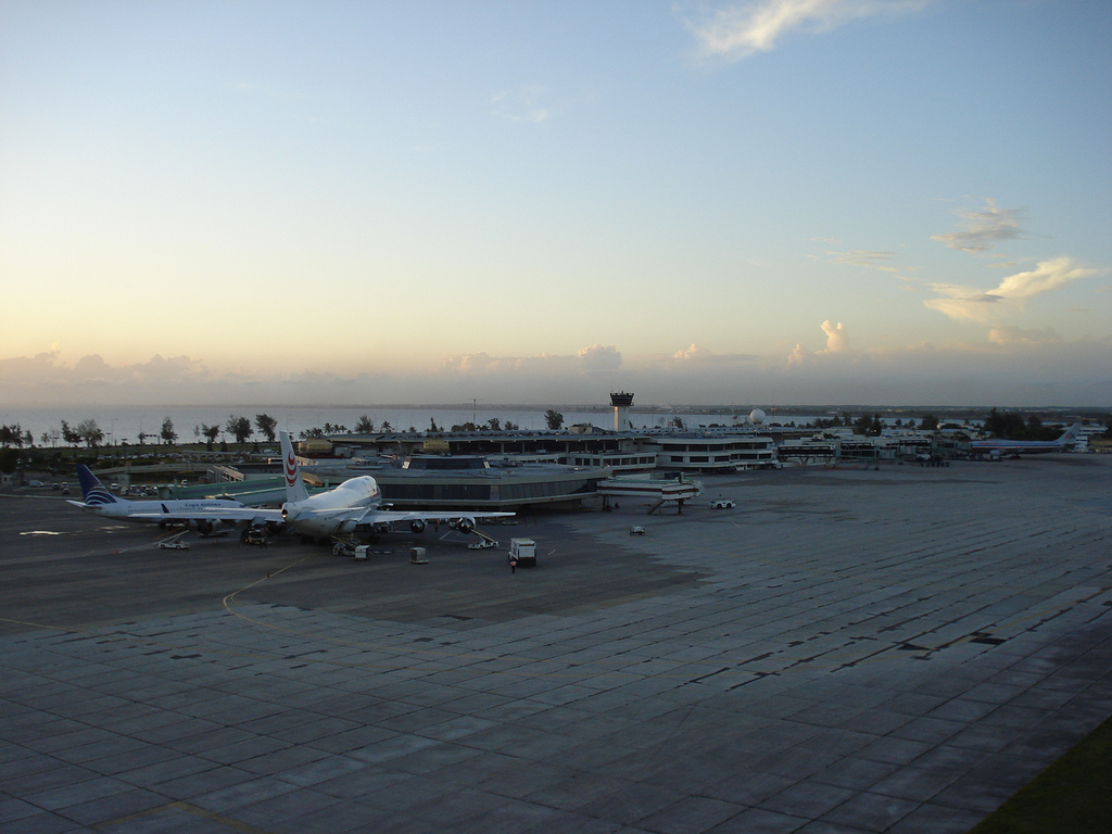 Las Americas Airport. Air Pullmantur operating a charter flight from MAD, with one of the usually 3 flights of Copa Airlines, at Terminal A. In Terminal B, can see one of the 16 flights operating by American Airlines daily in SDQ.